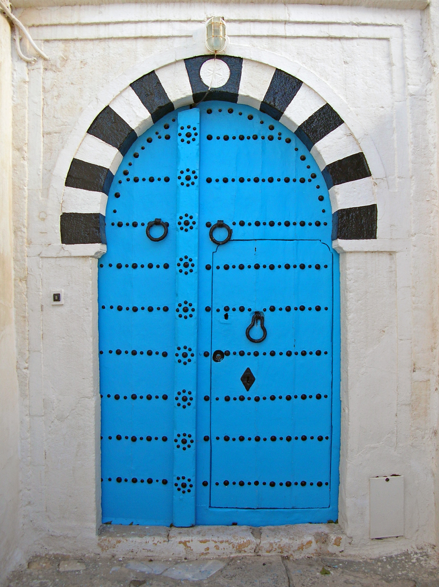 Door in Sidi Bou Said village, Tunisia